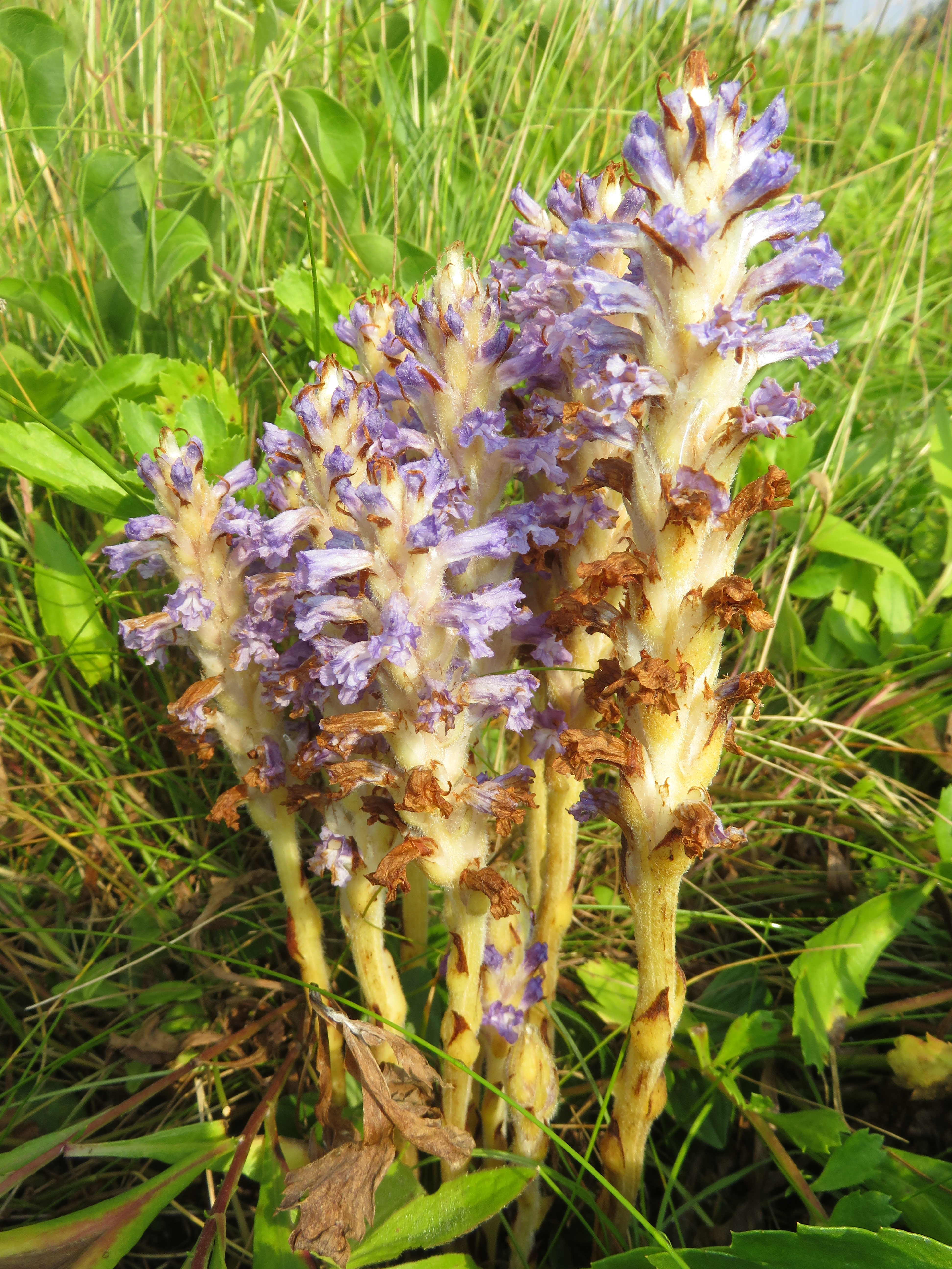 Orobanche coerulescens, Tanesashi Coast, Aomori pref., Japan